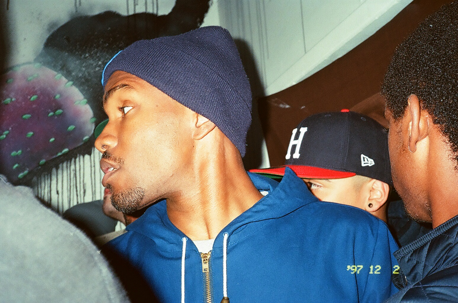 Frank Ocean at a listening event in Los Angeles on December 2, 2011.